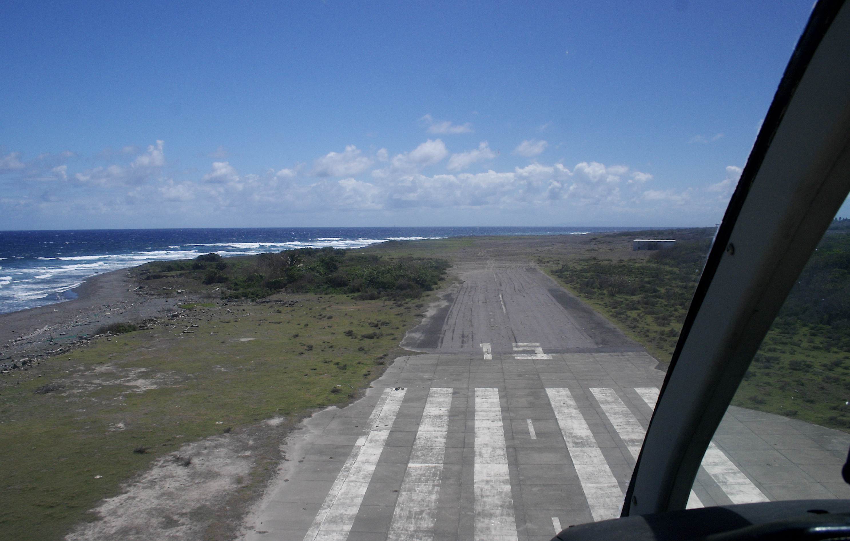 The remains of runway 15 of the abandoned W.H. Bramble International Airport, Montserrat, as seen from helicopter.